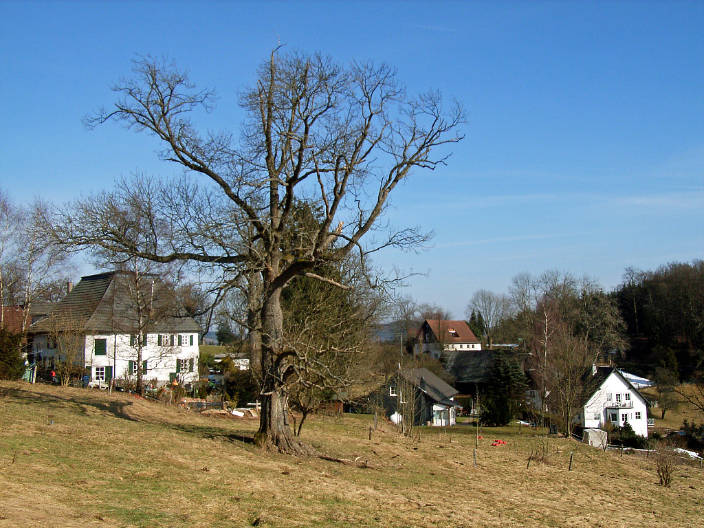 view of Helberg, district of Gummersbach, North Rhine-Westphalia, Germany